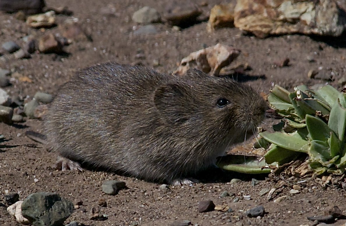 Crop of file in filename